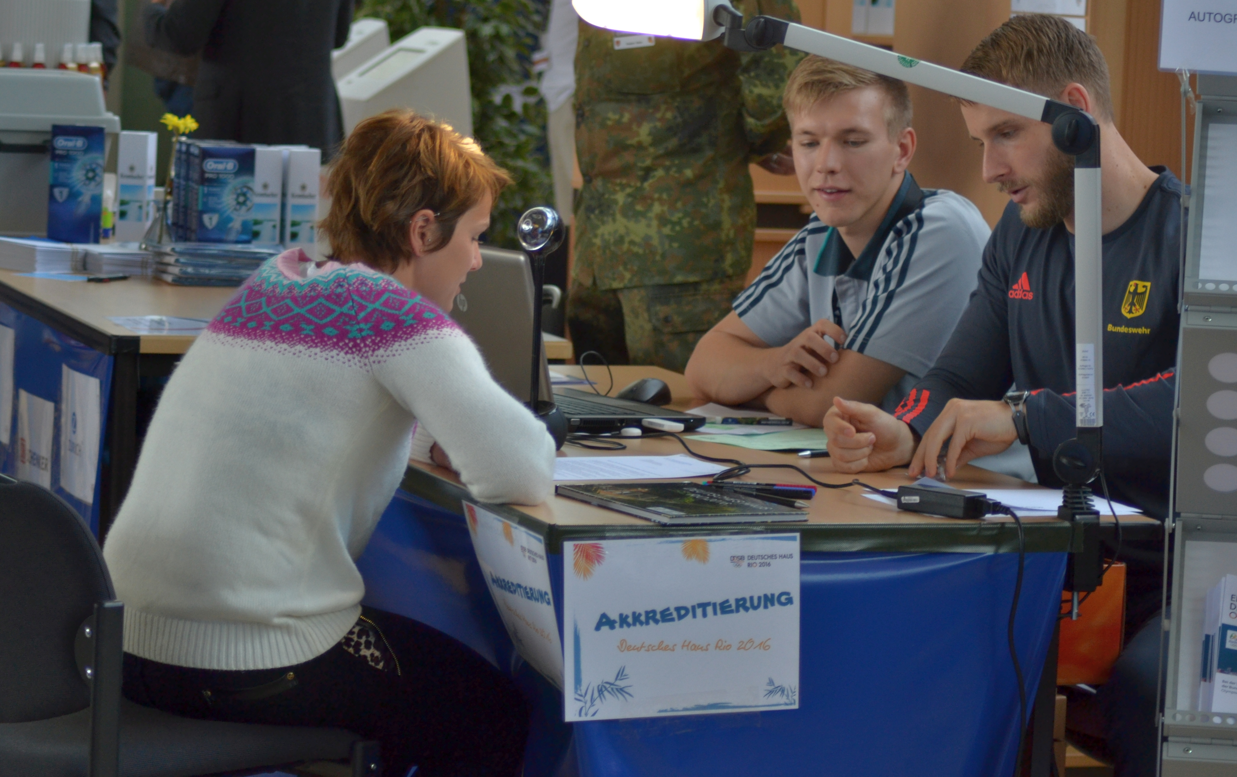 Media day of the clothing of the German Olympic team for Rio 2016 in the Emmich-Cambrai-Kaserne in Hanover. Pictured persons see Categories.